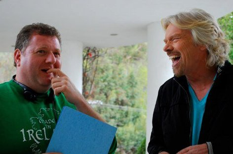 Dan Rosen directing Sir Richard Branson on the set of Freeloaders